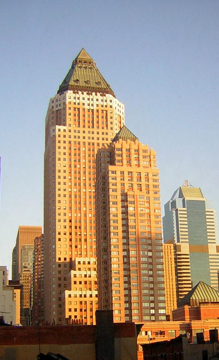 One Worldwide Plaza buildings, as seen from a close building on its west. #1 in back, #2 between, and #3 in foreground right, all in red brick with pyramidical green copper roof.